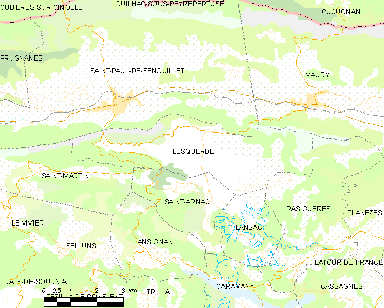 Map of French municipality